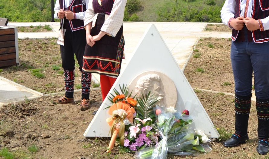 Nikola Karev memorial place